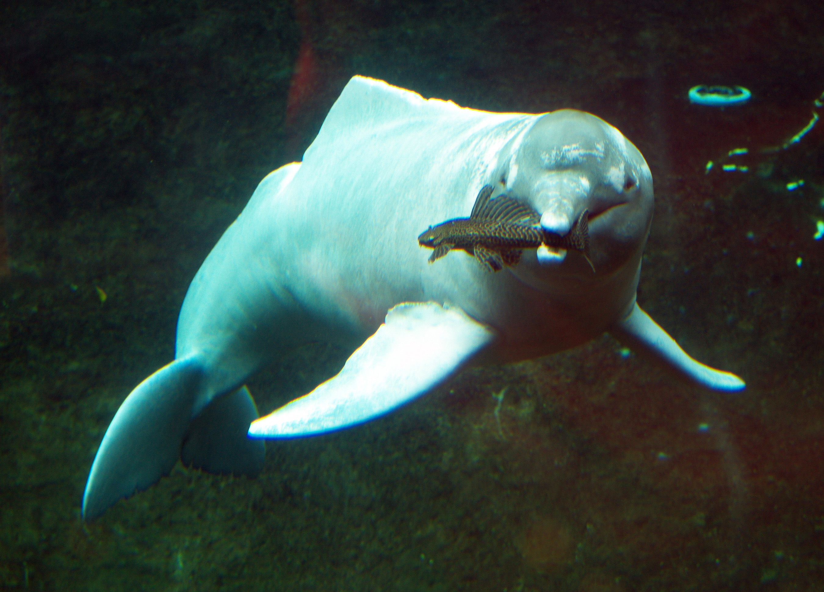 Inia geoffrensis at the zoo of Duisburg with Pterygoplichthys gibbiceps